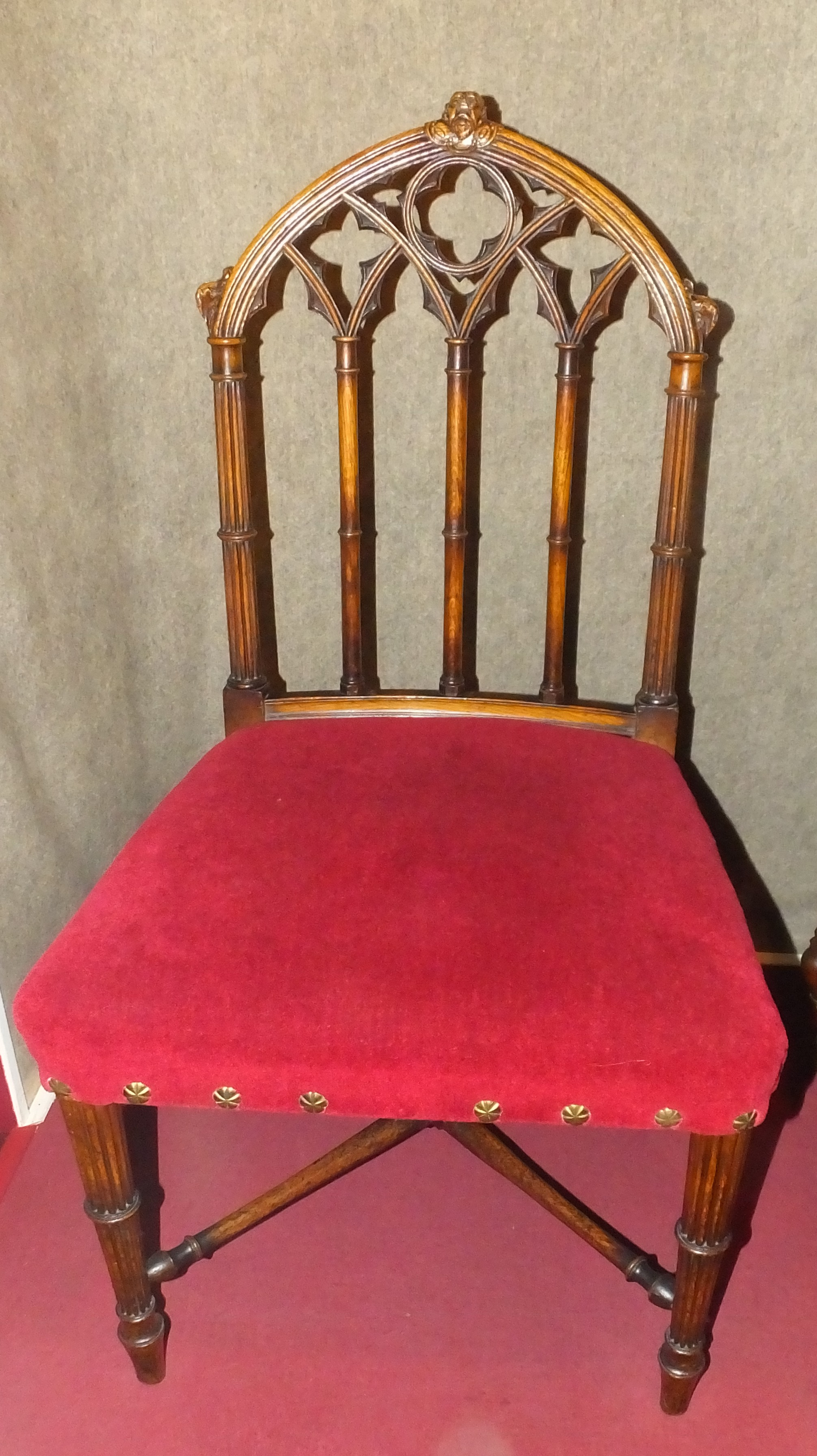 Taken during the tour and editathon at the Judges' Lodgings, Lancaster. 1803 Lancaster Grand Jury Room Chair Designed in 1803 for Lancaster Castle